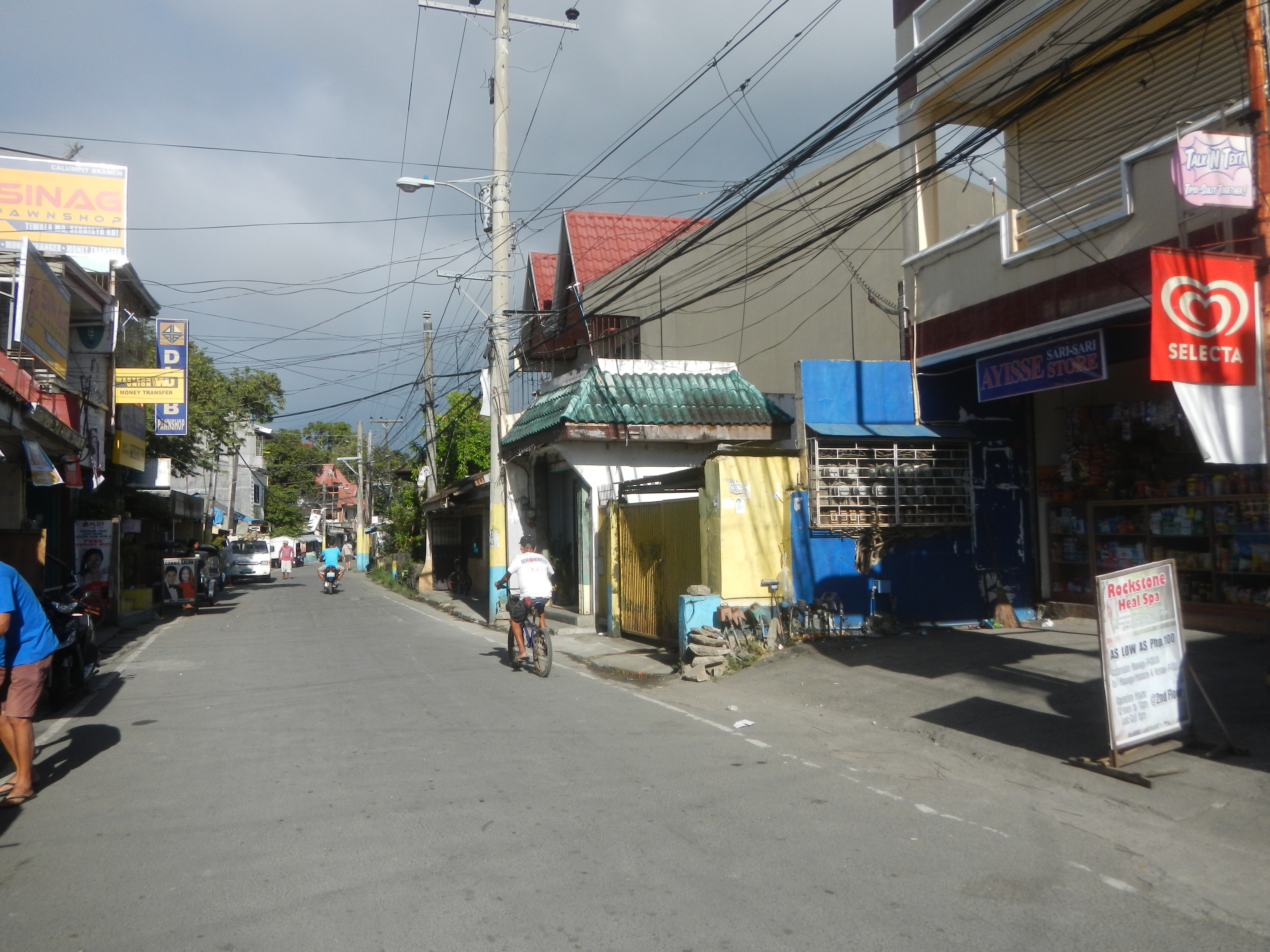 Barangay Poblacion 14°54'48"N 120°46'13"E, Calumpit, Bulacan; along MacArthur Highway, Calumpit 14°55'28"N 120°46'0"E MacArthur Highway or Manila North Road towards the "BMA" Park (V. F. P., Calumpit Post, WWII - November 26, 1977) San Juan Bautista Church (Calumpit) Saint John the Baptist Catholic School in Washington street (Note: Judge Florentino Floro, the owner, to repeat, Donor Florentino Floro of all these photos hereby donate gratuitously, freely and unconditionally all these photos to and for Wikimedia Commons, exclusively, for public use of the public domain, and again without any condition whatsoever).